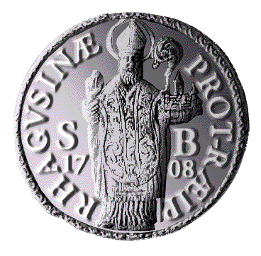 Computer drawing of Ragusian perpera coin from 1708